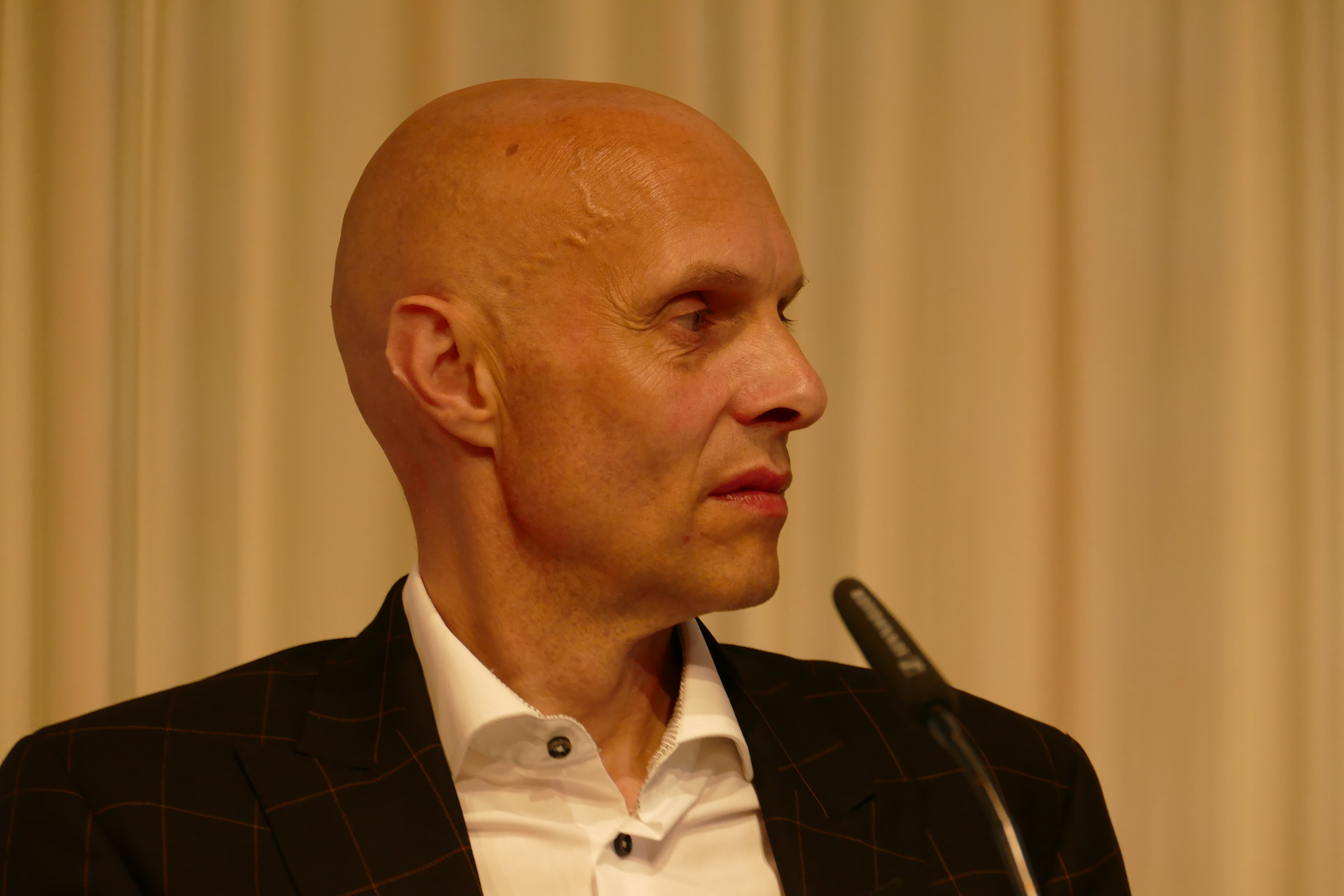 Michael Lentz at the Poesiefestival Berlin